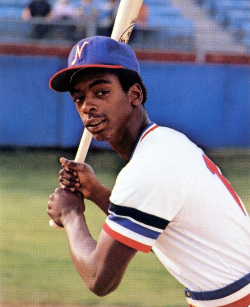 Outfielder Willie McGee of the 1980 Nashville Sounds Minor League Baseball team of the Southern League